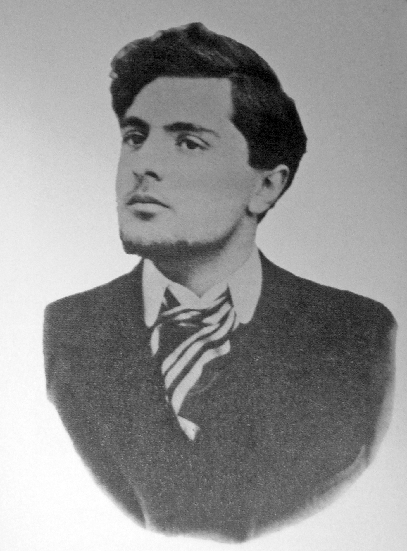 Amedeo Modigliani at Livorno (about 17 years old).